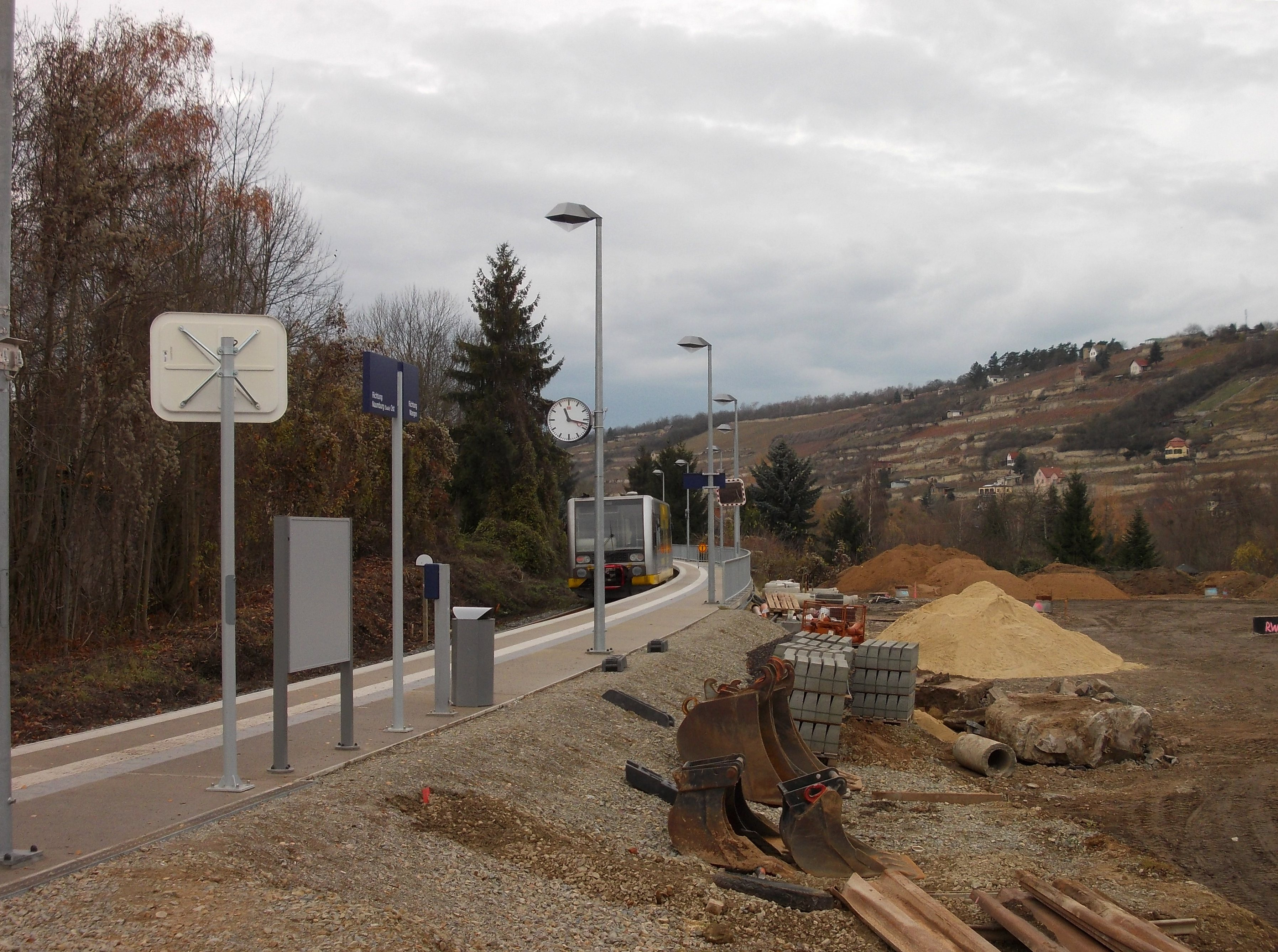 Railcar of the Burgenlandbahn at the new station in Freyburg/Unstrut (district of Burgenlandkreis, Saxony-Anhalt)